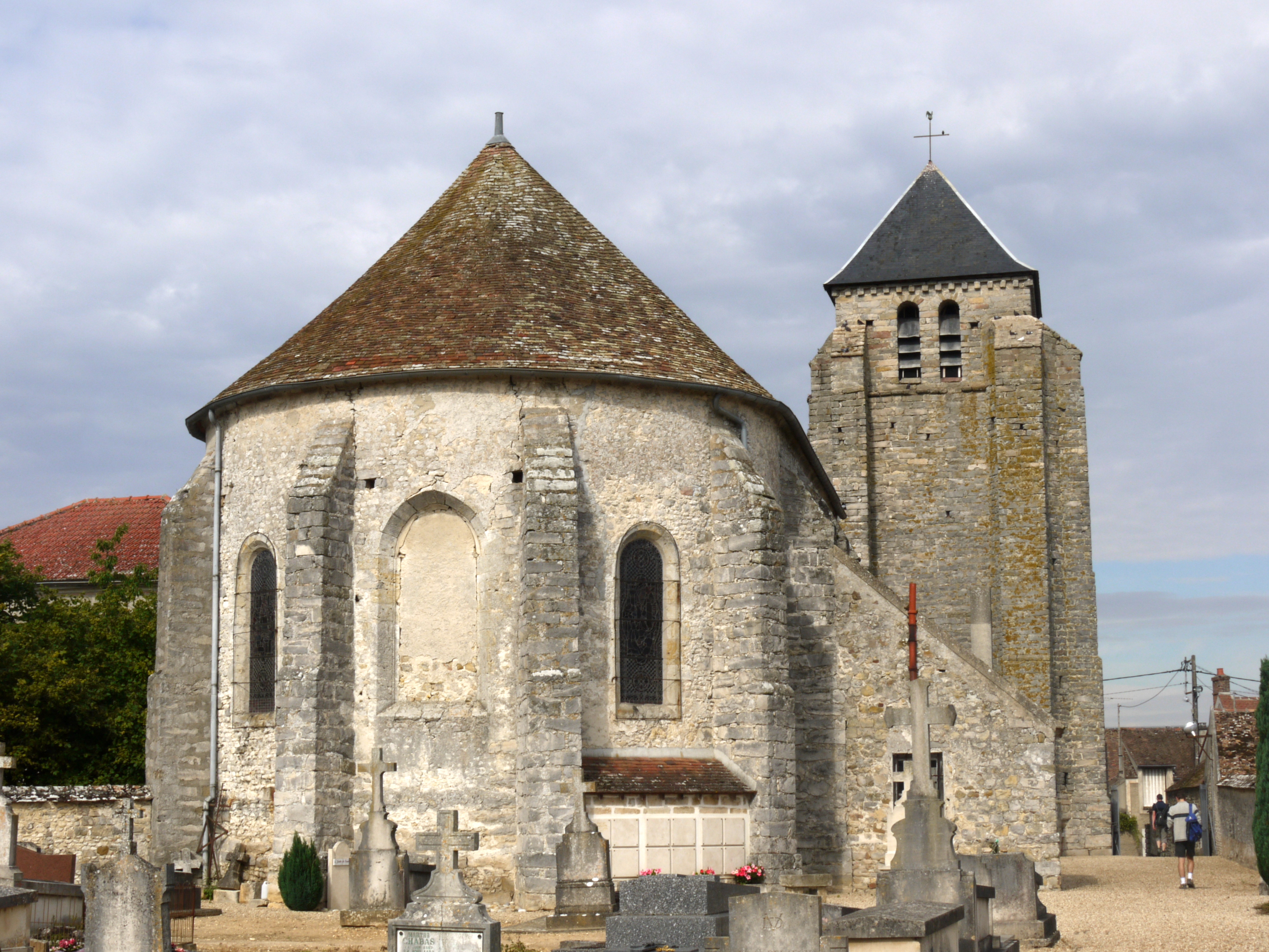 Church of Achères la Foret, Ile de France, France